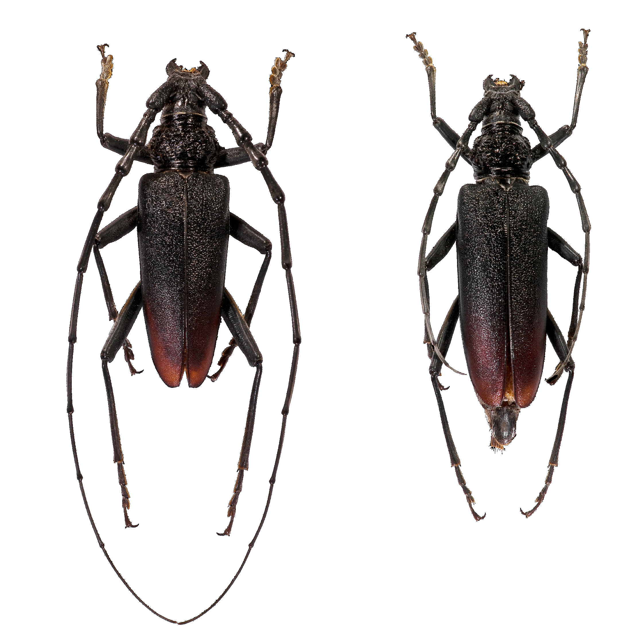 Cerambyx cerdo - Great Capricorn Beetle - Male and female - France - 9,5 and 8 cm